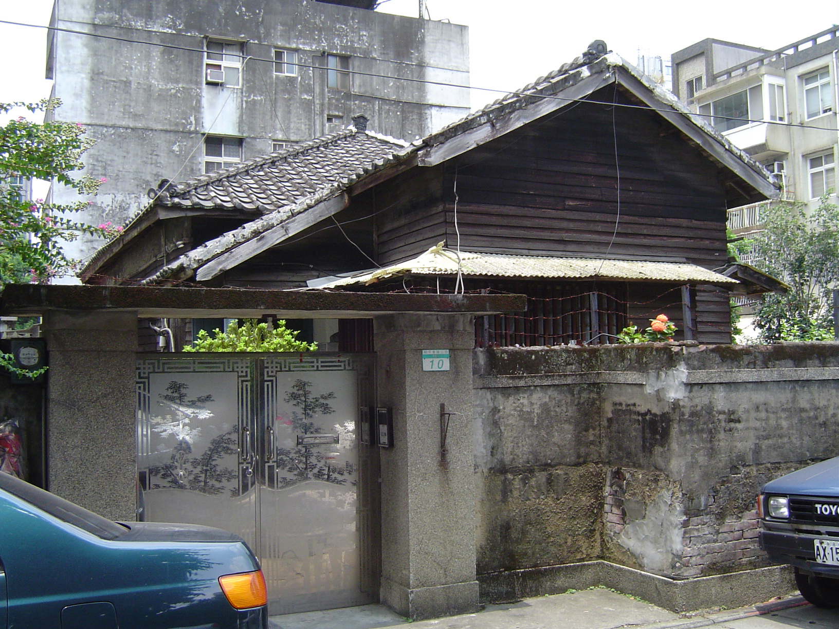 Japan house built in 1932~1945